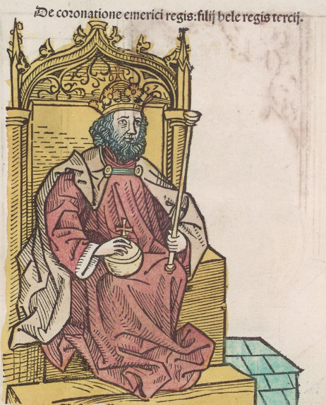 Emeric of Hungary